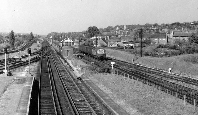 Coulsdon North Station Approach A parcels train approaching Coulsdon North hauled by the ubiquitous Type 3. Taken in the late 60's or very early 70's on a summer day.